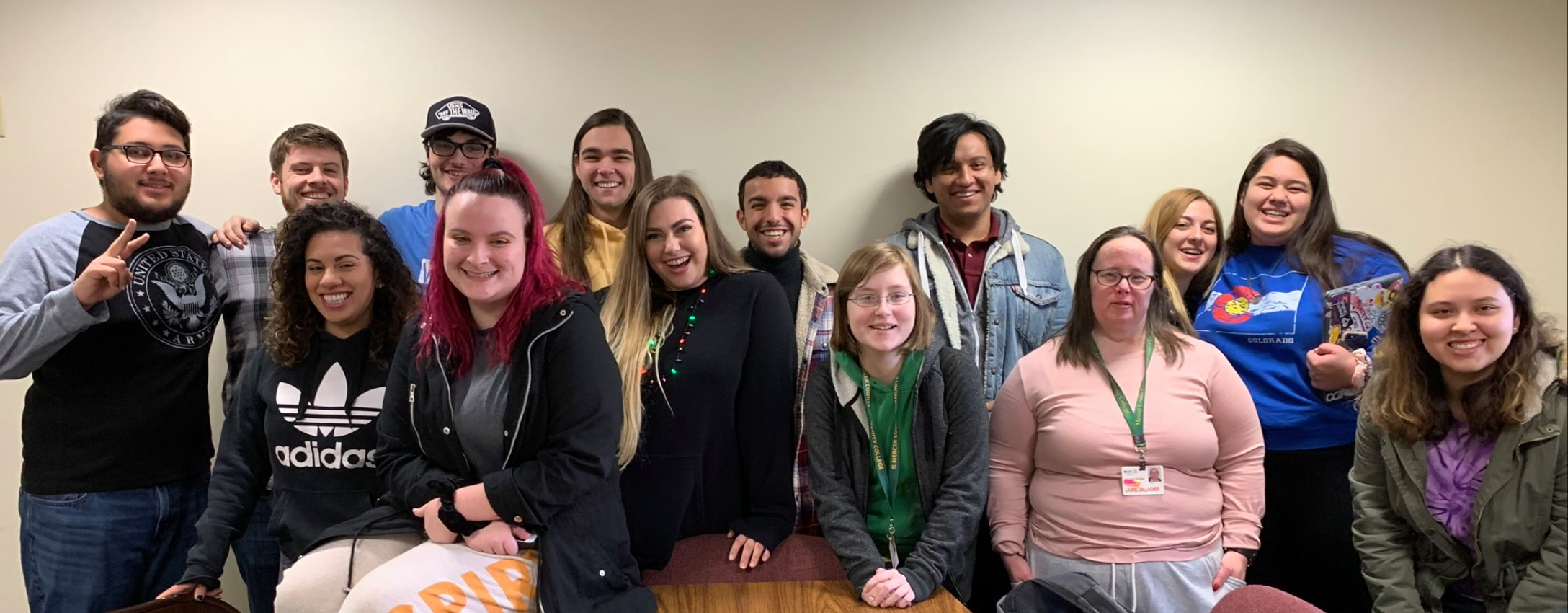 The staff of The College VOICE student newspaper of Mercer County Community College following a staff meeting at the end of the fall 2019 semester.